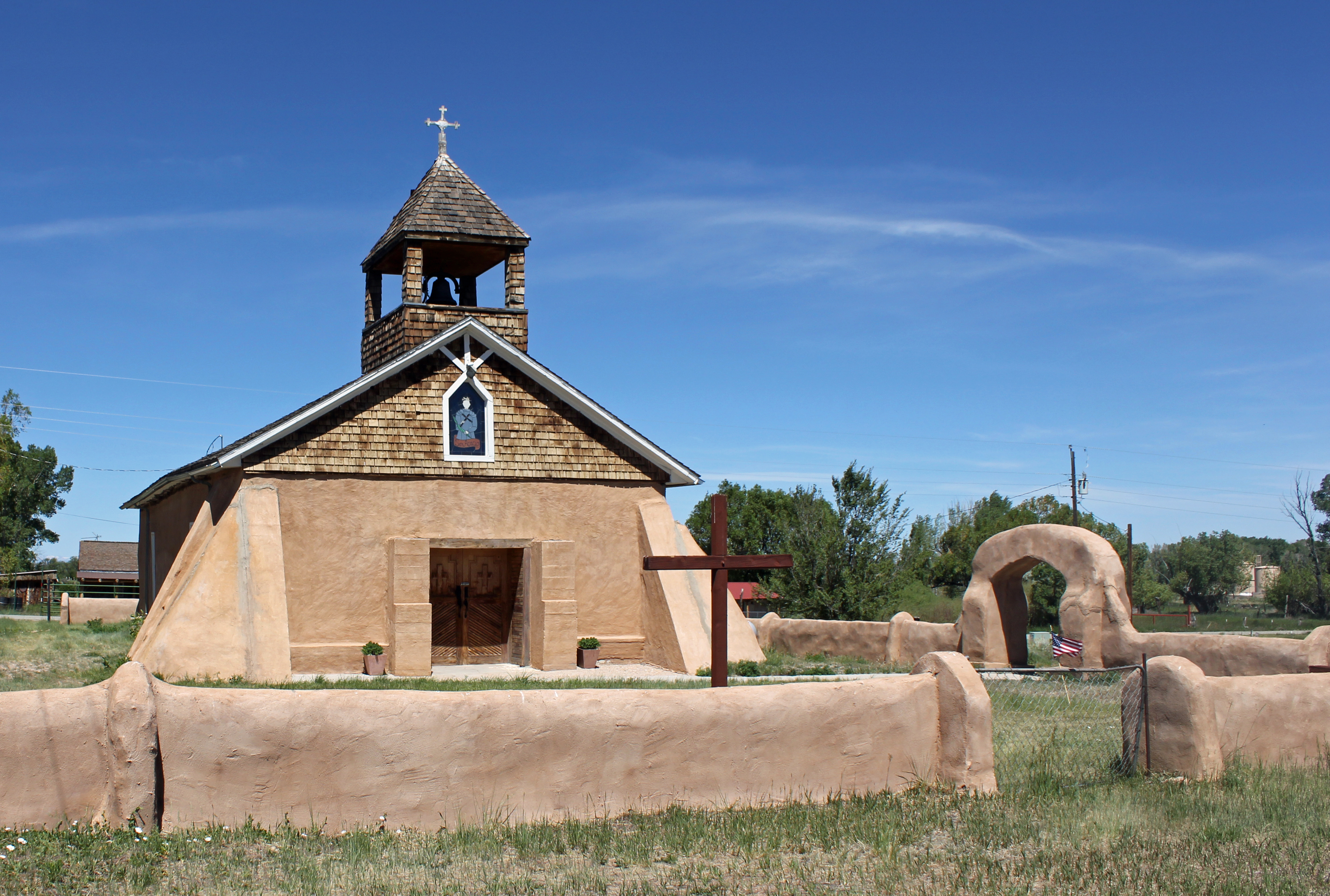 The Capilla de Viejo San Acacio, located in Viejo San Acacio, Colordo. The church is listed on the National Register of Historic Places.